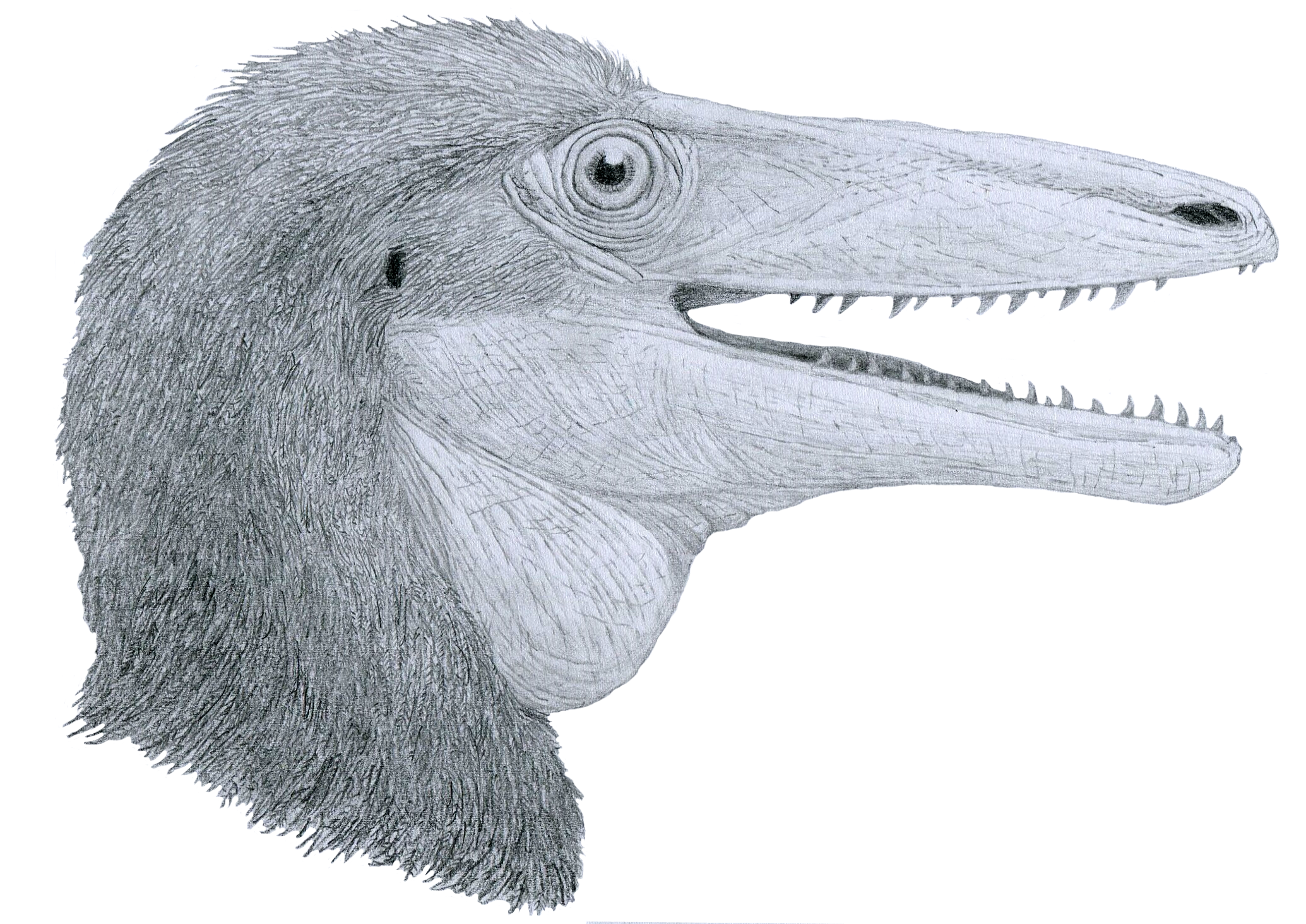 Juvenile Megaraptor namunhuaiquii Tom Parker, Pencil 2015